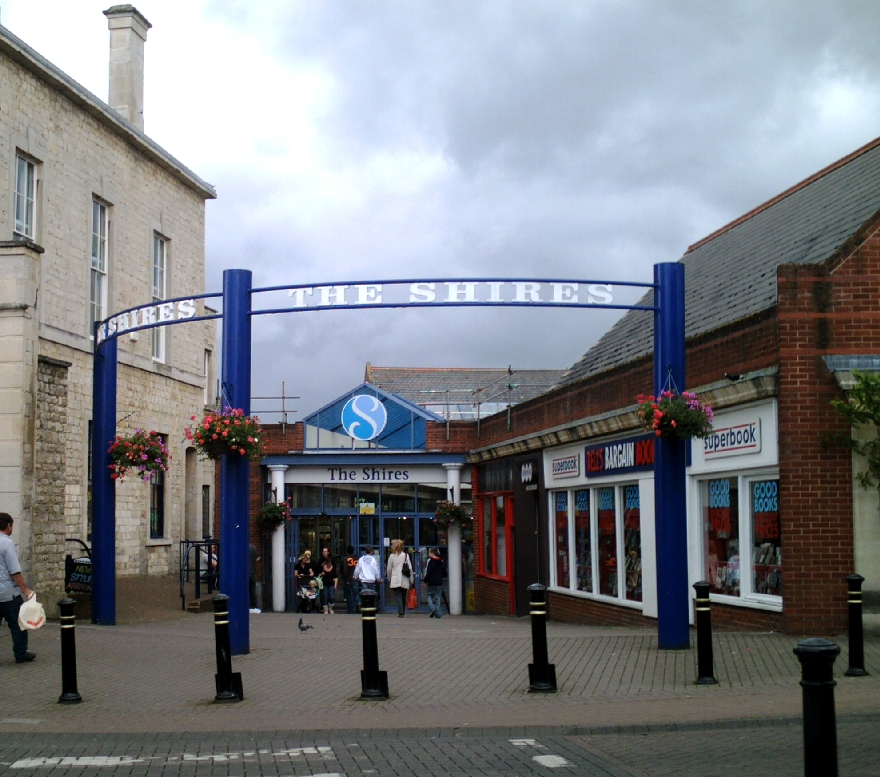 Main entrance (from Market Street, town centre) to The Shires shopping centre, Trowbridge, Wiltshire